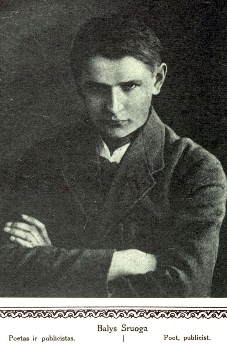 Balys Sruoga, Lithuanian poet, playwright, literary critic